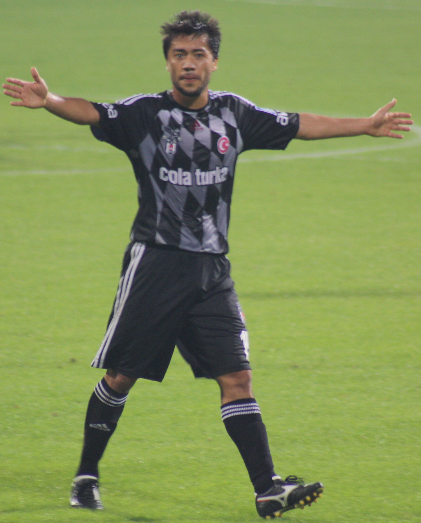 2009-2010 Besiktas - Denizlispor taken in comparison